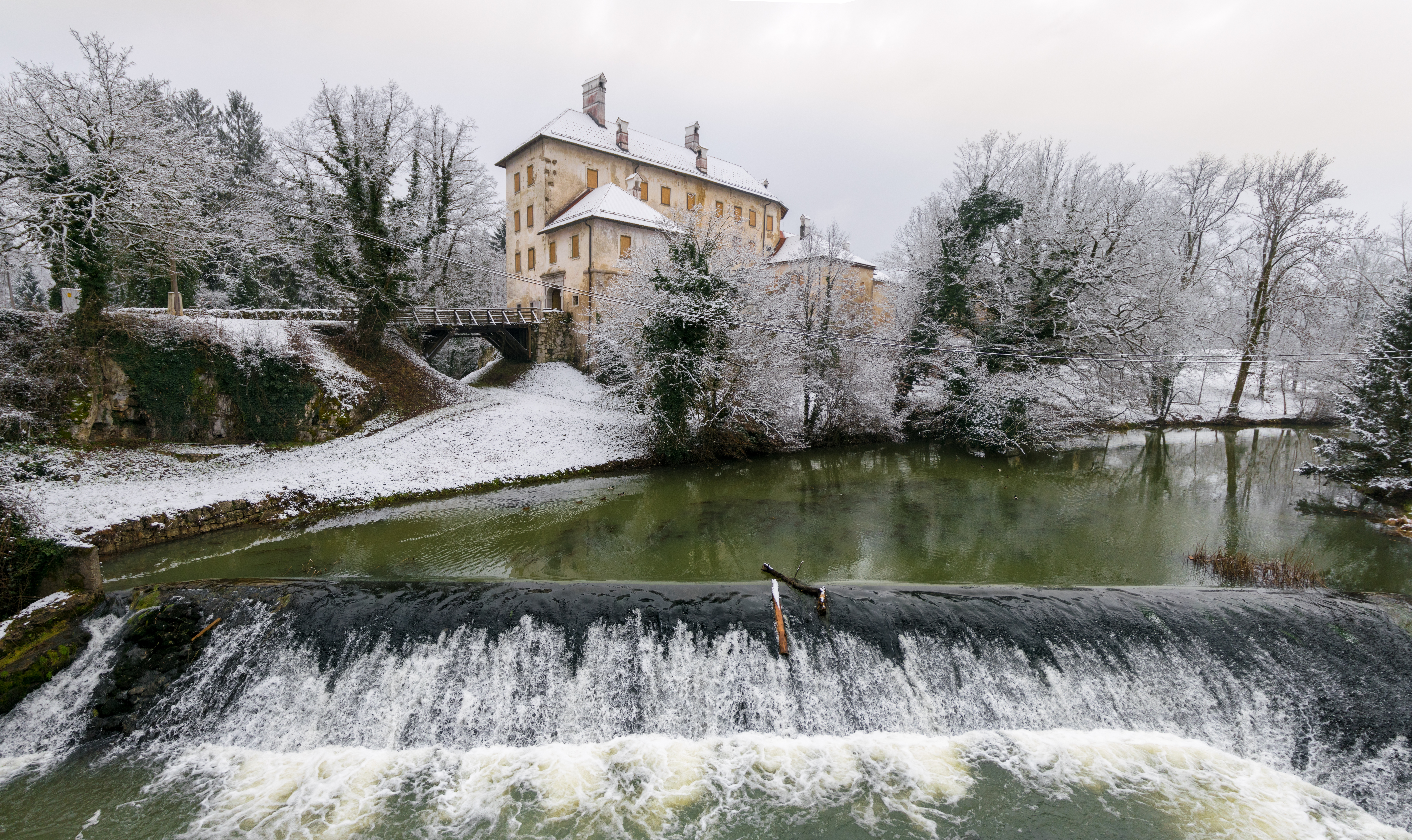 Castle Gradac was first mentioned in 1228. It is located in the village with the same name. You can find out more about the castle and Bela krajina here